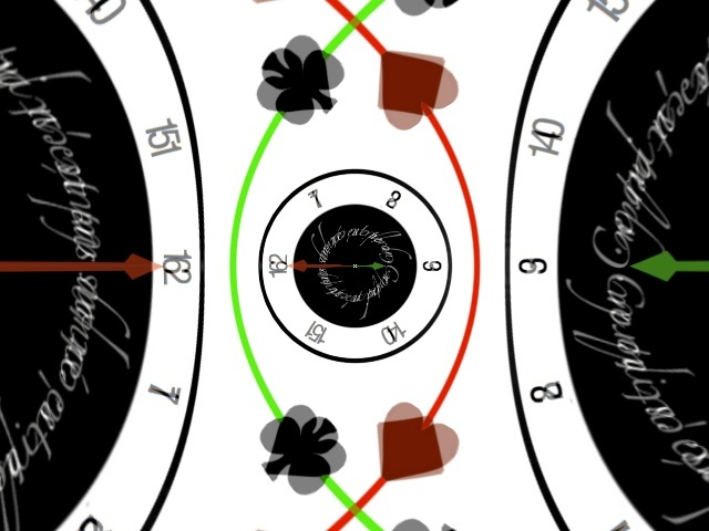 This picture represents the result of a conformal transformation of the complex plane tiled by a clock. Here: the square function z ↦ z 2 {\displaystyle z\mapsto z^{2 .